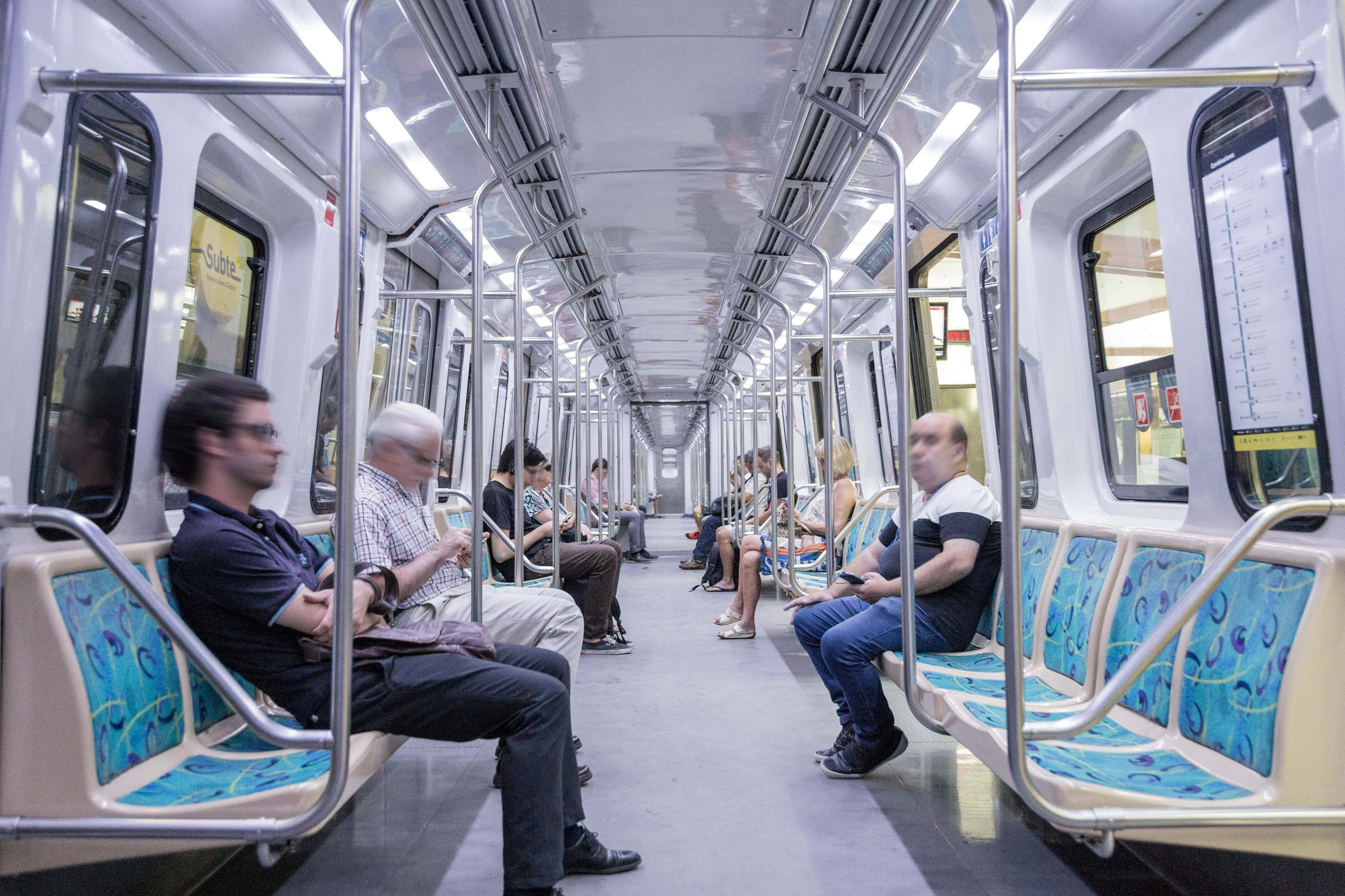 Interior of a Line D 100 Series car after mid-life refurbishment.